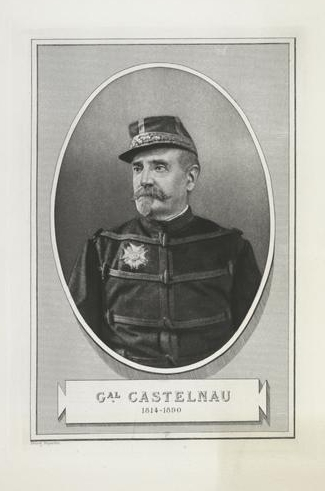 The french general Henri-Pierre-Abdon Castelnau (1814-1890)